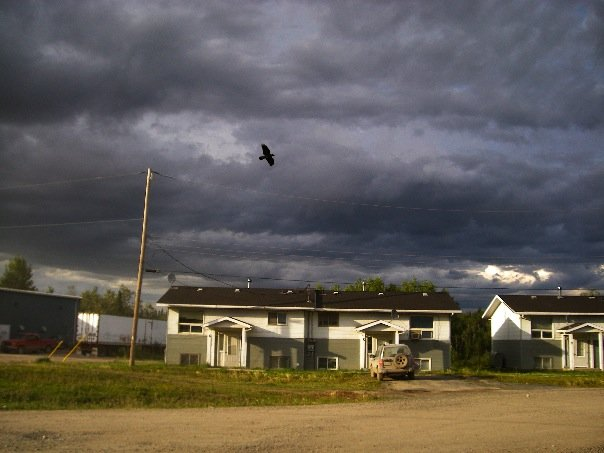 Around Sandy Lake, 2008